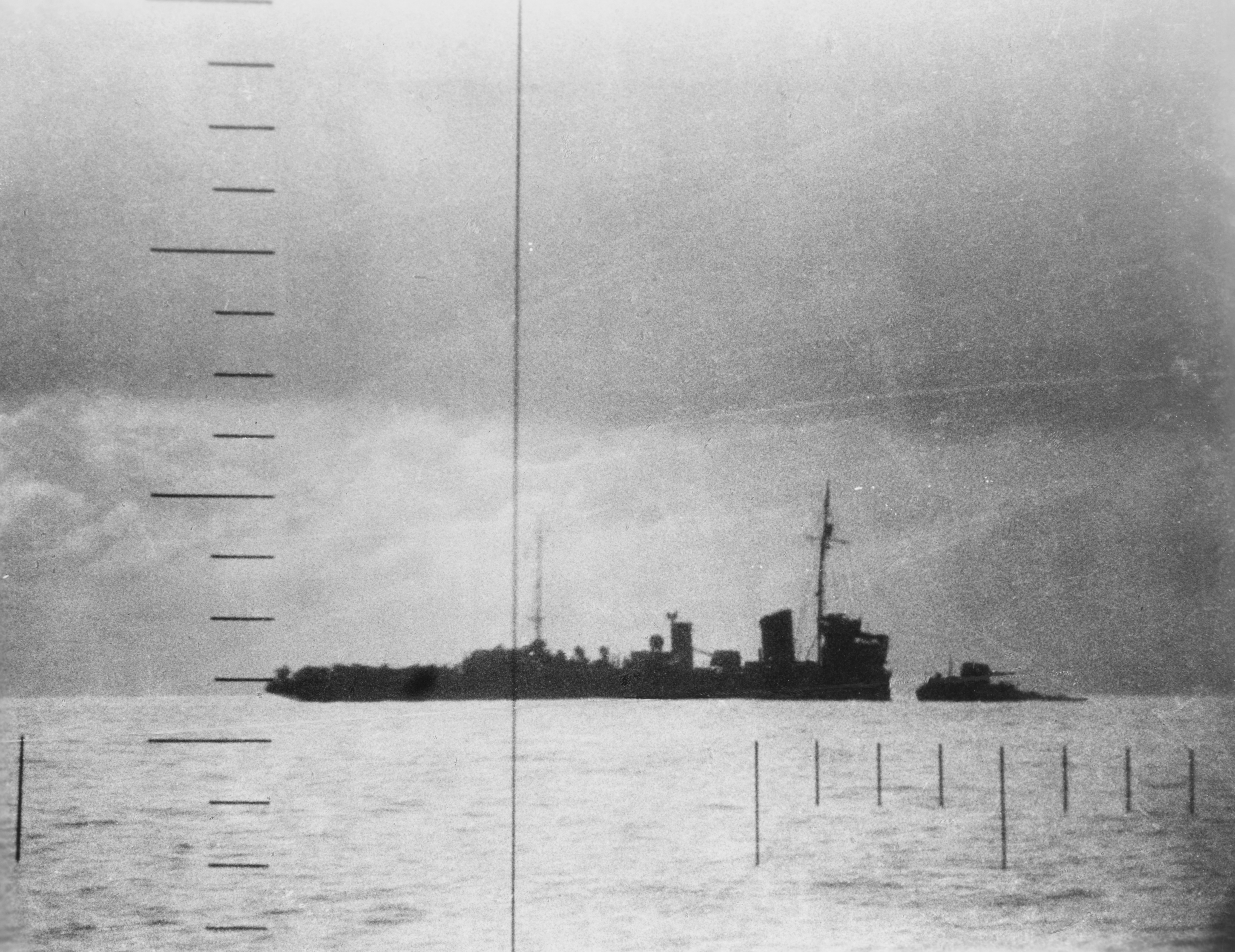 The Japanese escort vessel Patrol Boat No.39 (originally the destroyer Tade) sinking after being torpedoed by the U.S. Navy submarine USS Seawolf (SS-197) 280 km north-east of Formosa on 23 April 1943. Photographed through Seawolf's periscope.